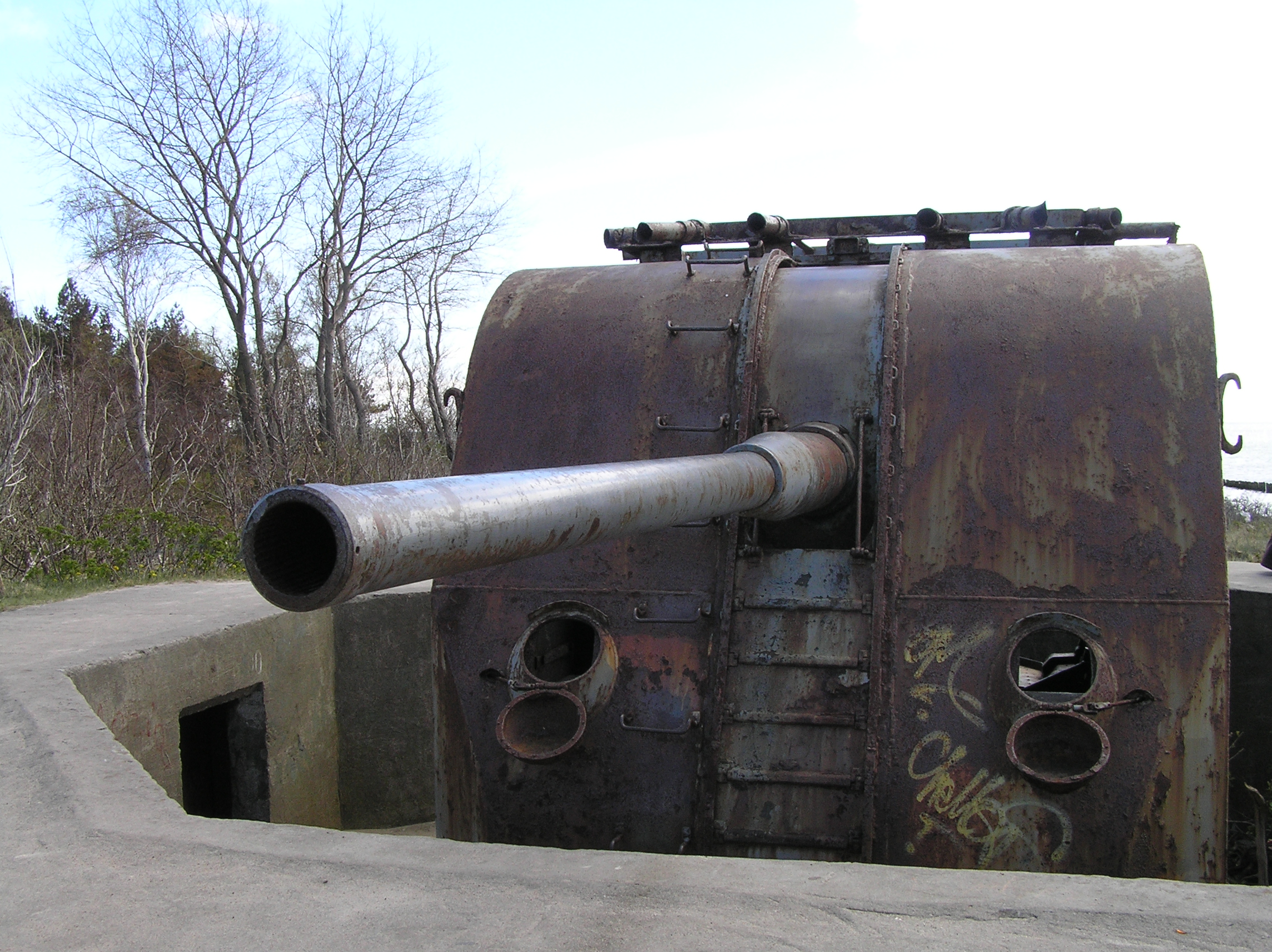 B-34U coastal gun in Hel